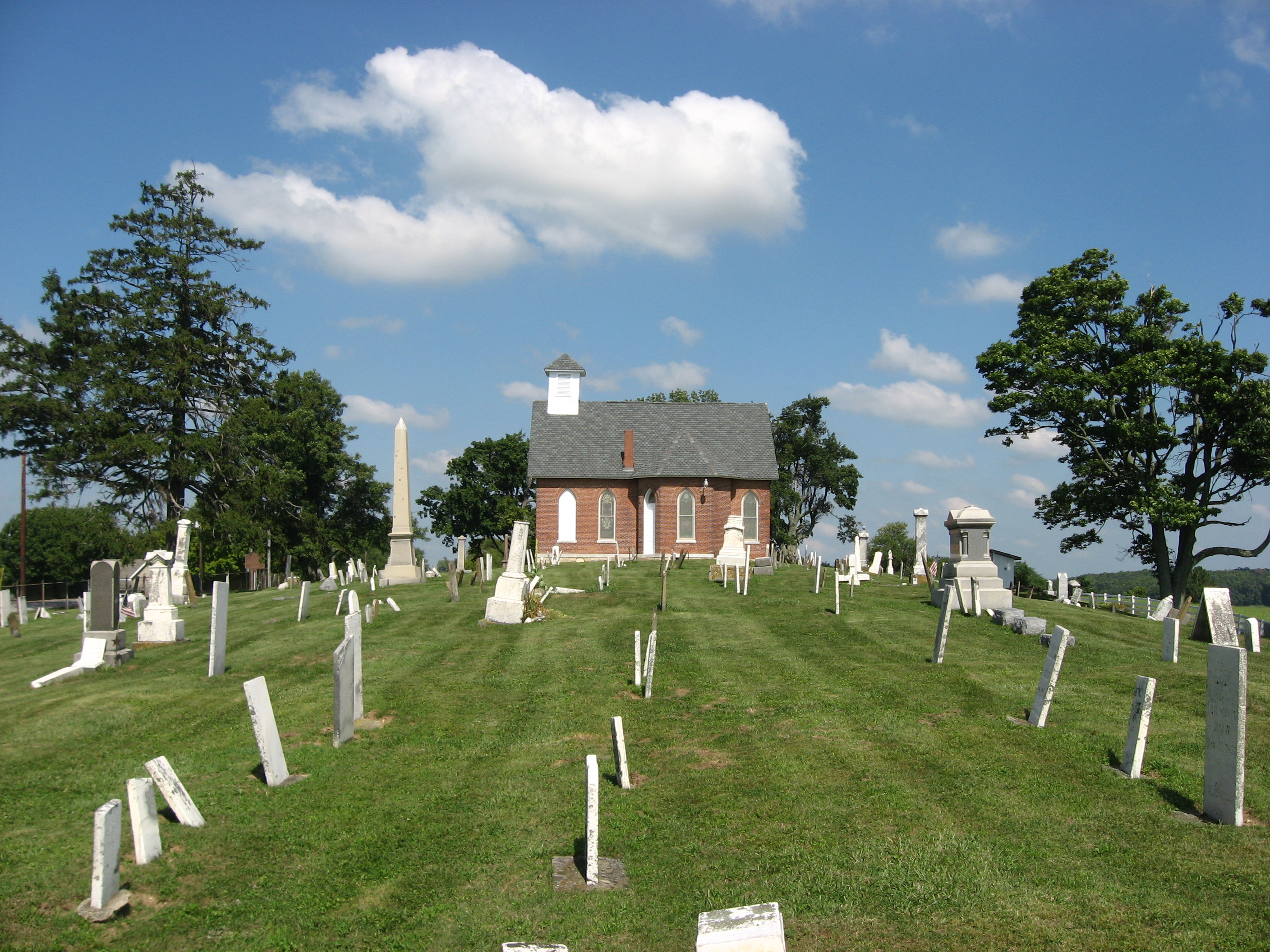 Cemetery and side of the old Mount Tabor Methodist Episcopal Church, located along State Route 245 southeast of West Liberty in Salem Township, Champaign County, Ohio, United States. Built in 1881, it is listed on the National Register of Historic Places as the "Mt. Tabor Church Building, Cemetery and Hitching Lot".